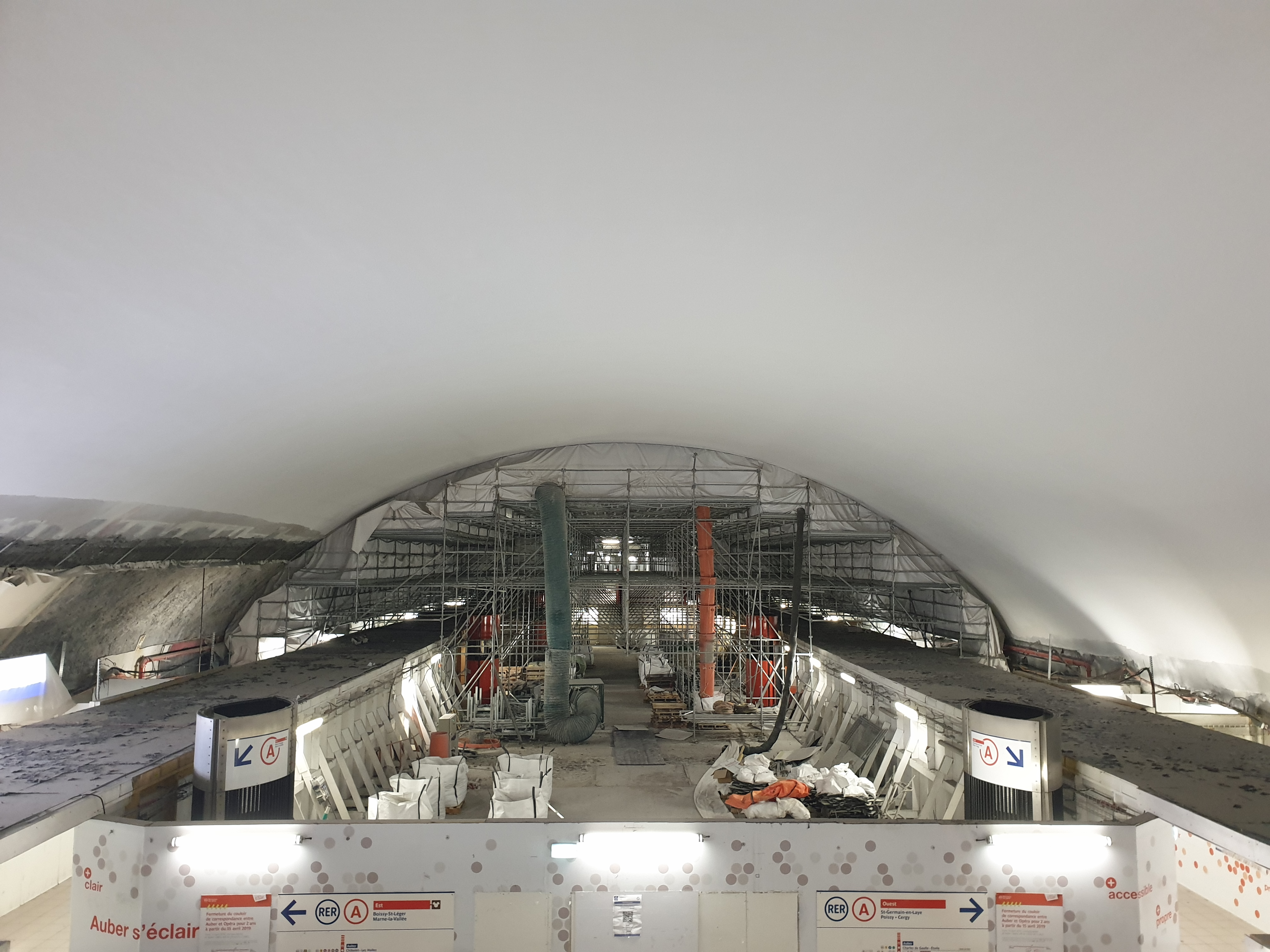 Renovation of the main hall of Auber station in Paris - 2020-01-31.